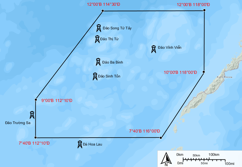 Kalayaan Island Group claimed by the Philippines (most of Spratly Islands) - Presidential Decree No. 1596 - Vietnamese version